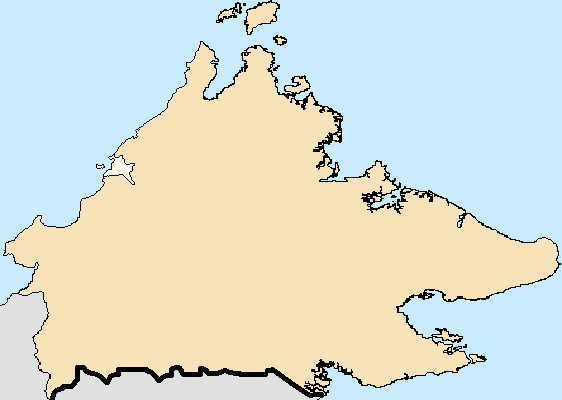 Location map of Kota Kinabalu, the capital city of the Malaysian state of Sabah.